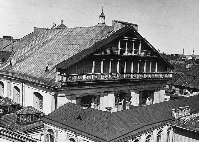 Synagogue of Vilna. Photo taken by the German army during the 1st World War (between 1914 and 1918).